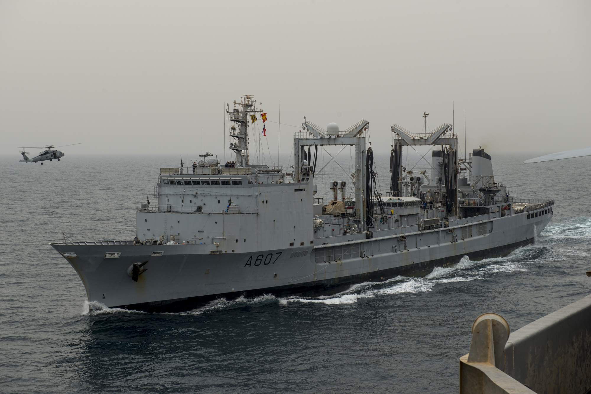 The French Marine Nationale Durance-class multi-product replenishment oiler Meuse (A607) transits alongside the aircraft carrier USS Carl Vinson (CVN 70) during a replenishment-at-sea in the Arabian Sea. A Sikorsky MH-60R Seahawk of Helicopter Maritime Strie Squadron 73 (HSM-73) is fying above Meuse.